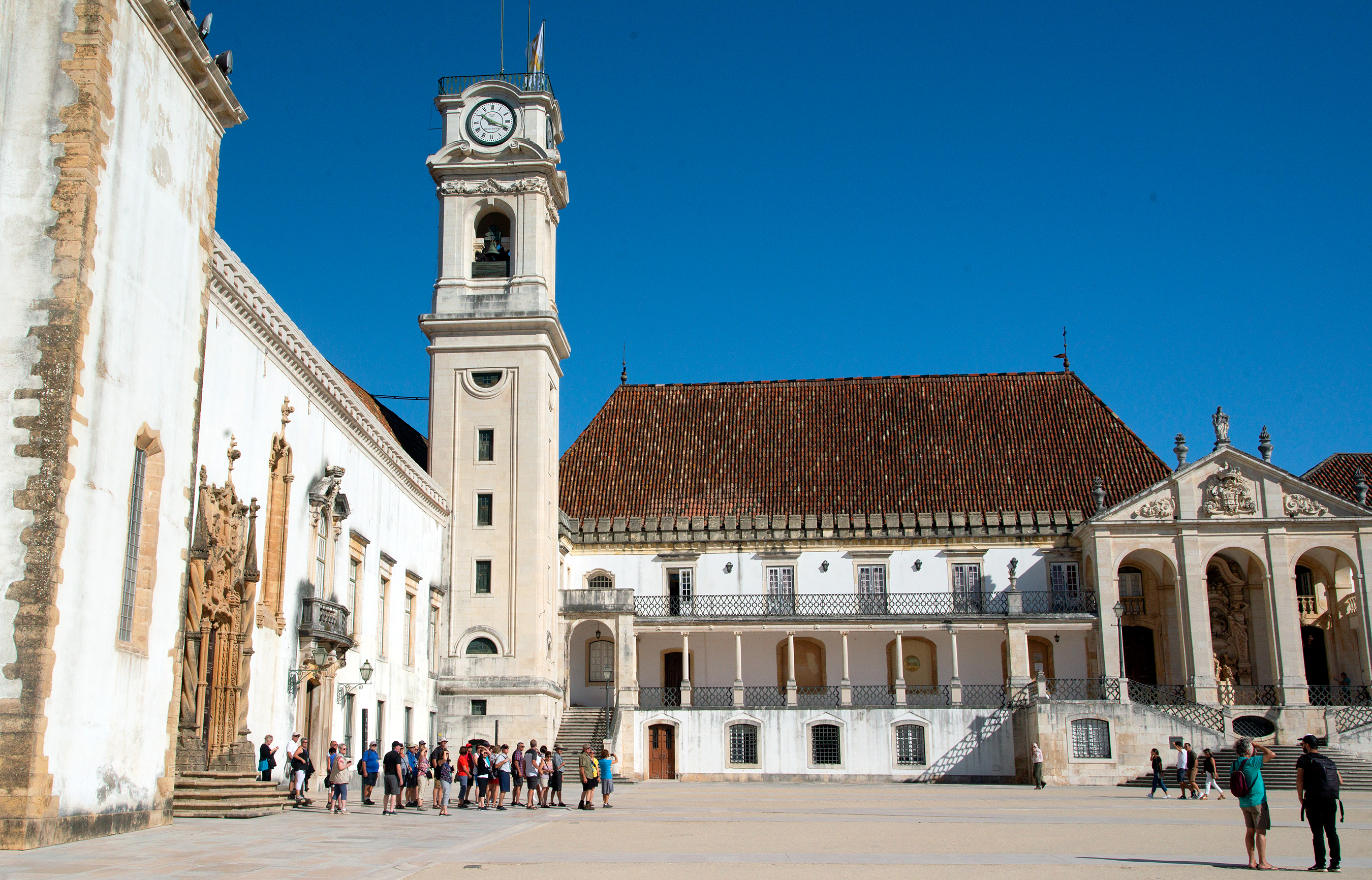 Some of the University of Coimbra buildings, September 2019